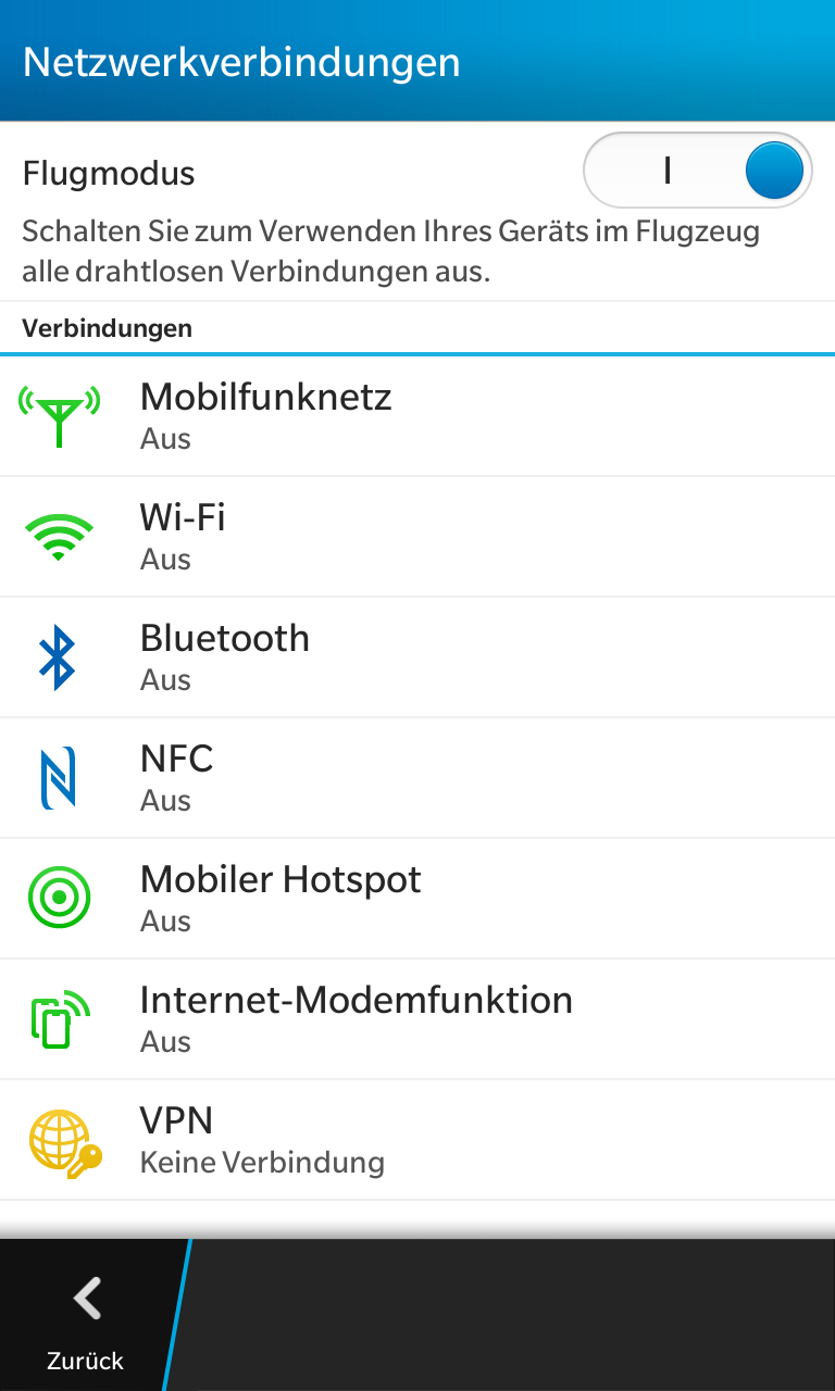 Screenshot of the airplane mode menu under Blackberry 10.2 on a Blackberry Z10 smartphone. Airplane mode activated. (Menu language: German)